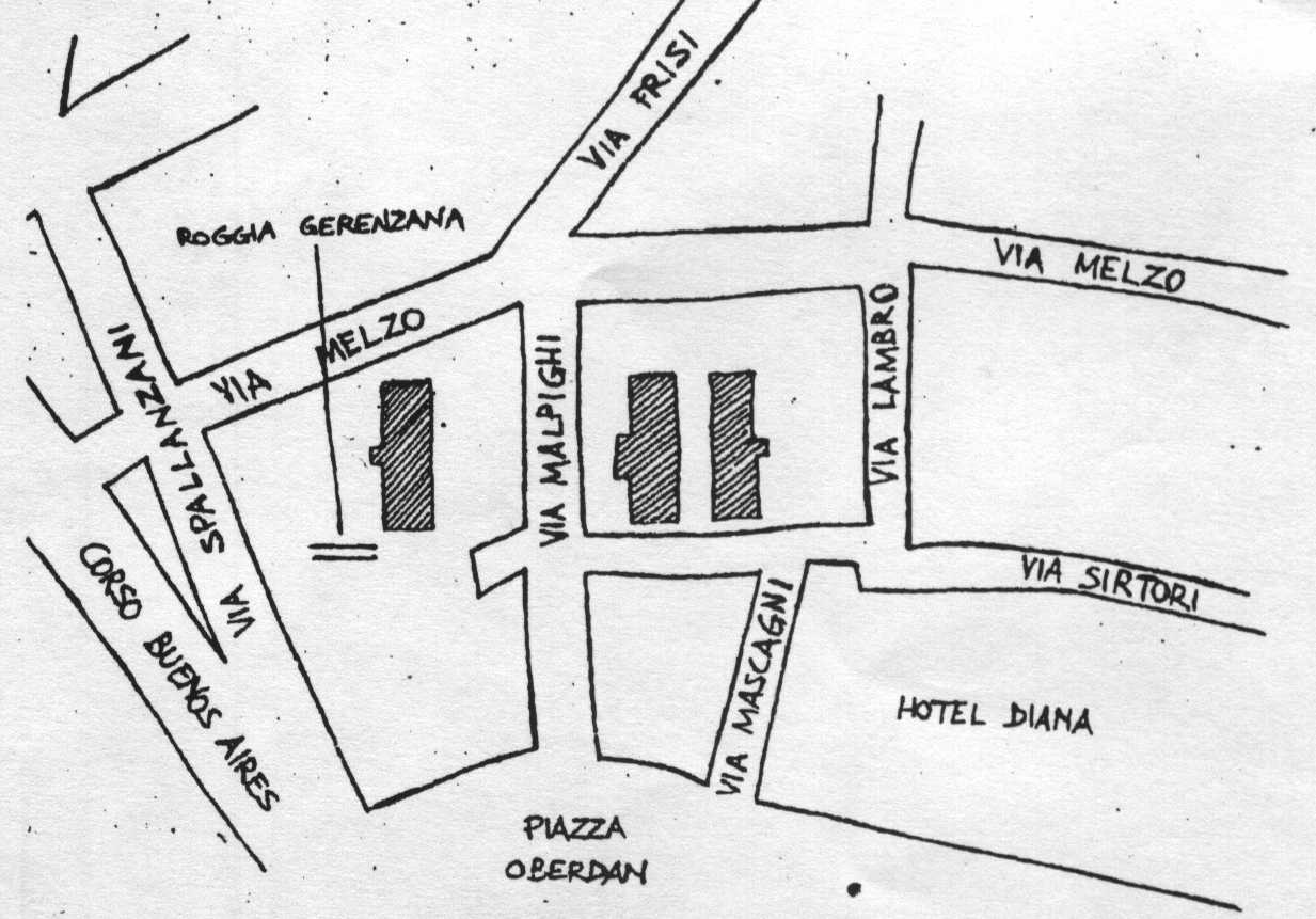 Surviving stables of the depot of S.A.O. in Milan